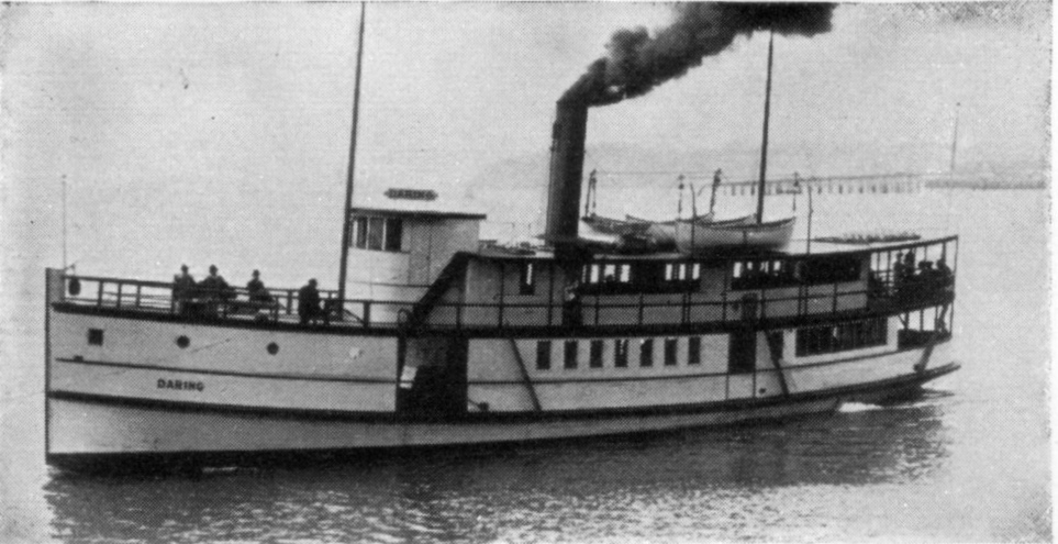 Steamboat Daring, built 1909, served in Puget Sound until 1918, then went to Victoria, and worked as tug under name Victor until 1935 when she sank.